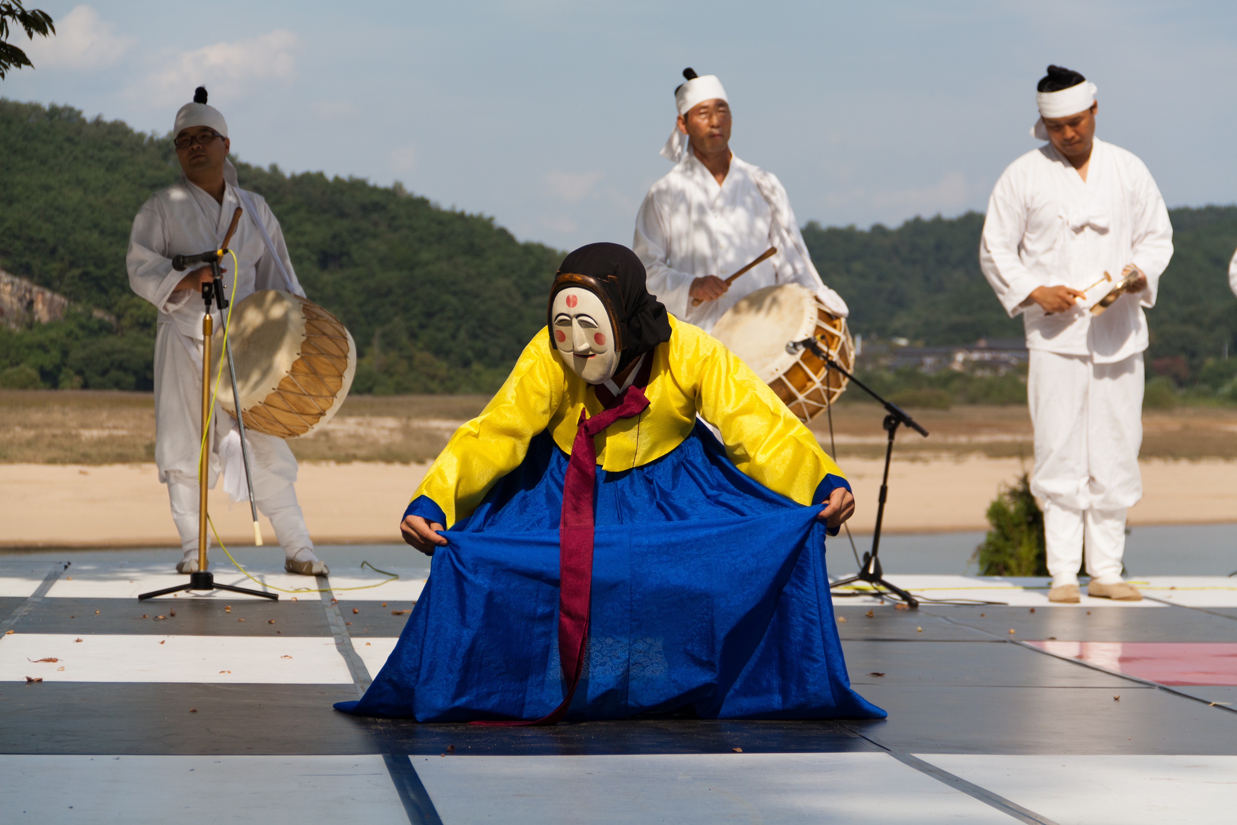 Hahoe Mask Dance